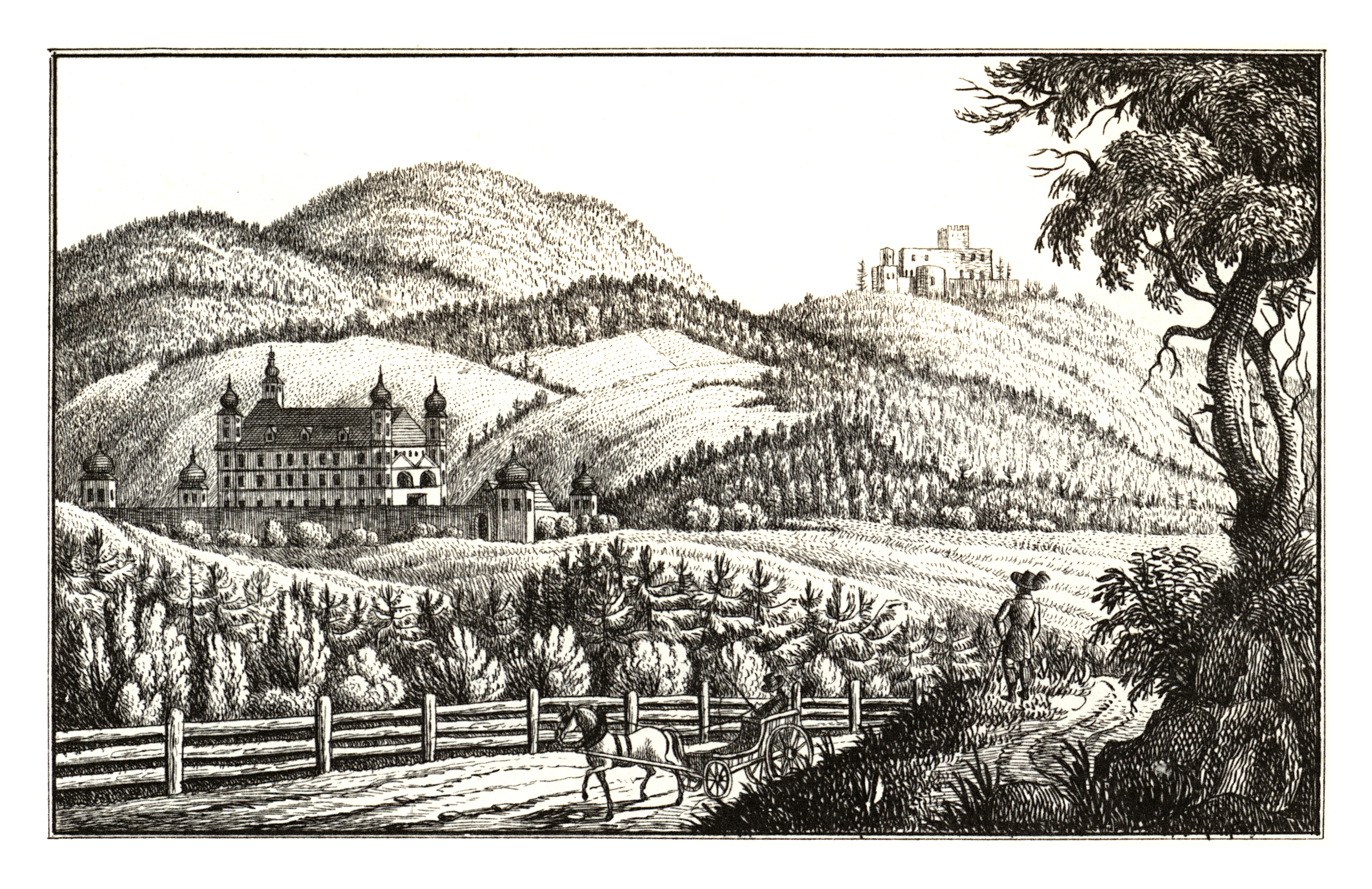 J. F. Kaiser - lithographirte Ansichten der Steyermärkischen Städte, Märkte und Schlösser, Graz 1824-1833 Joseph Franz Kaiser (1786–1859) Alternative names J. F. KaiserDescriptionAustrian printer and editorDate of birth/death 11 March 1786 19 September 1859Location of birth/death Graz (Styria) GrazAuthority control : Q1499963 VIAF: 30629353 ISNI: 0000 0000 3083 0153 LCCN: n87141671 GND: 129880159 NLP: A24960305 WorldCat creator QS:P170,Q1499963 . Scanprojekt Community Projektbudget 2012 This scan or this PDF-file was created within the GLAM-project Bookscanning, supported by Wikimedia Germany and Wikimedia Austria as a part of the community-project to capture books, documents and pictures which are not eligible to copyright or for which the copyright has expired. This document describes or depicts an object which is located in Austria today. Send requests for uncompressed scans to Hubertl. This work is in the public domain in its country of origin and other countries and areas where the copyright term is the author's life plus 100 years or fewer. You must also include a United States public domain tag to indicate why this work is in the public domain in the United States. This file has been identified as being free of known restrictions under copyright law, including all related and neighboring rights.